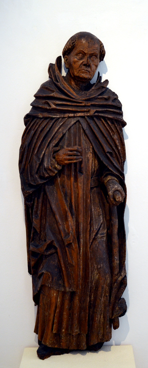 Anton Pilgram, St. Peter Martyr (around 1510), Moravian Gallery in Brno